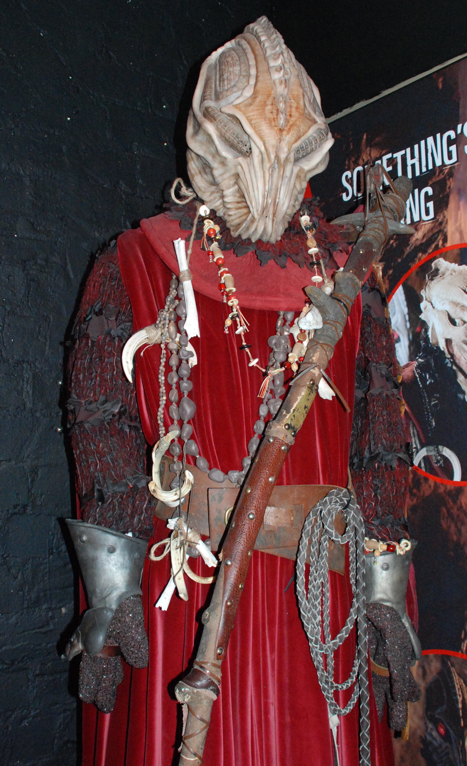 The Dr. Who exhibition at the Kelvingrove Art Gallery is well worth a visit. Of particular interest to me were the numerous examples of pre vis material on display. Lots of examples of storyboards and research materials for sets costumes and of course monsters. The show is great for kids but infants might find it a bit too scary. Particular highlights were the Cybermen and Dalek exhibits which were really interactive and very well done. Good to see these up close. Lots of ideas for halloween costumes from the monsters! Recommended, finishes on 4 Jan 2010. Doctor Who Experience